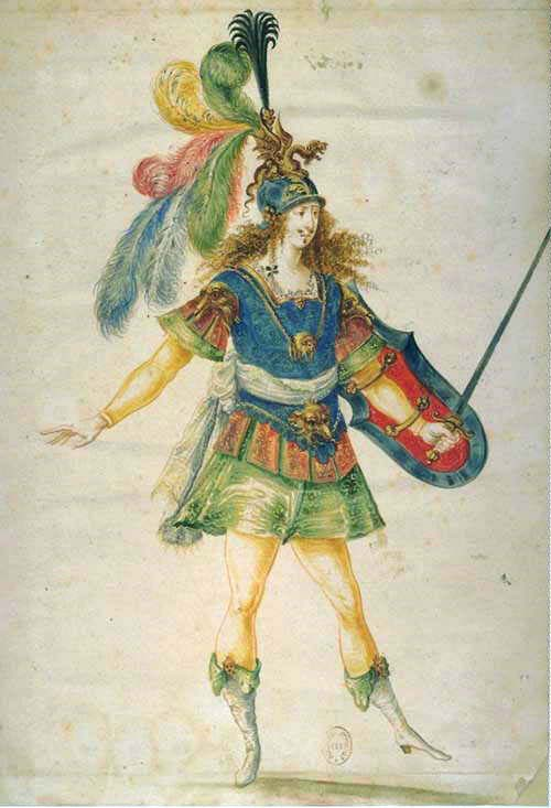 The warrior from Ballet Royal de la Nuit.